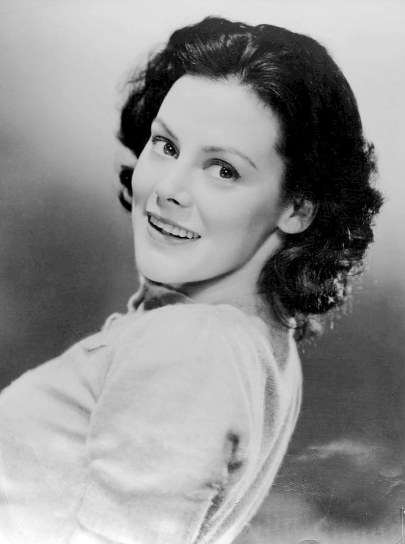 Photo of Helen Mack from the radio program "Myrt and Marge".